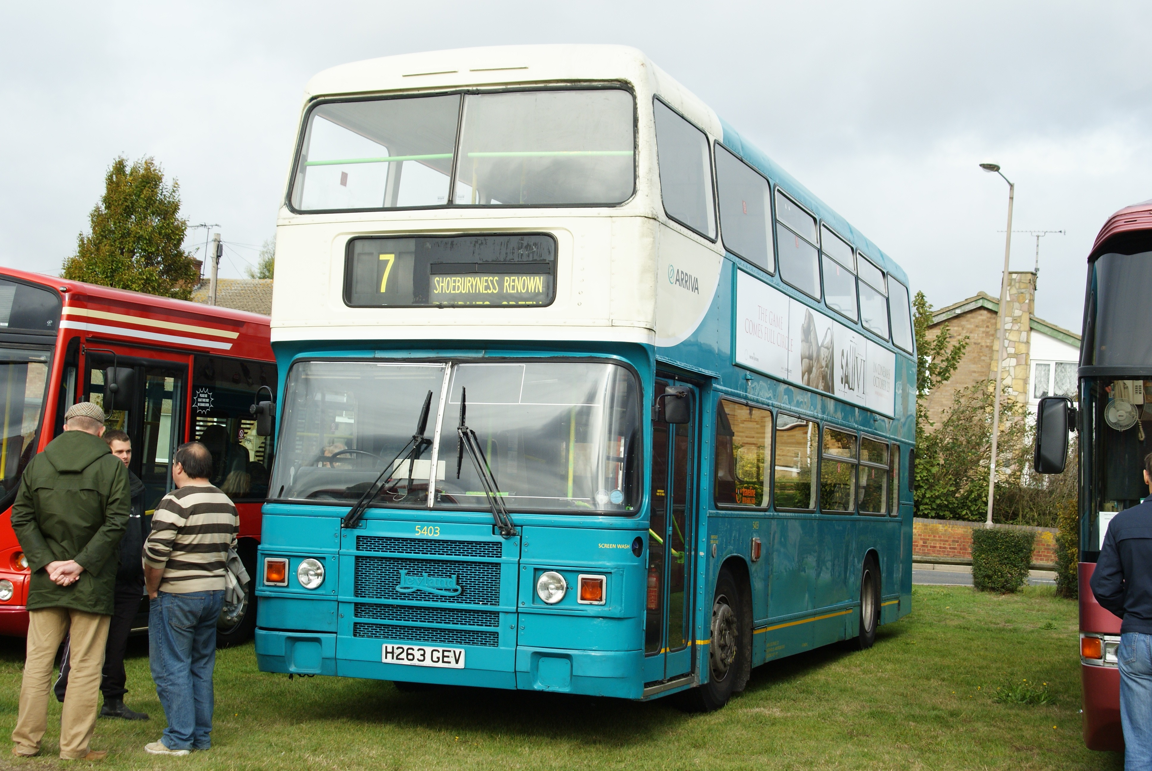 Arriva Southend 5403 (H263 GEV), a Leyland Olympian, at 2009 Canvey Island bus rally. 111009 CPS